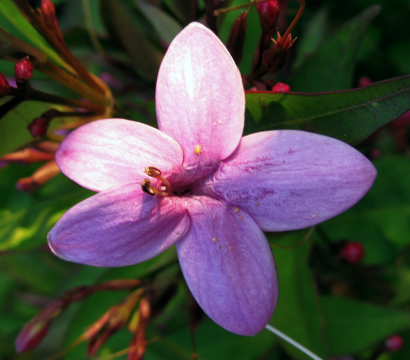 Pseuderanthemum laxiflorum Place:Osaka Prefectural Flower Garden,Osaka,Japan